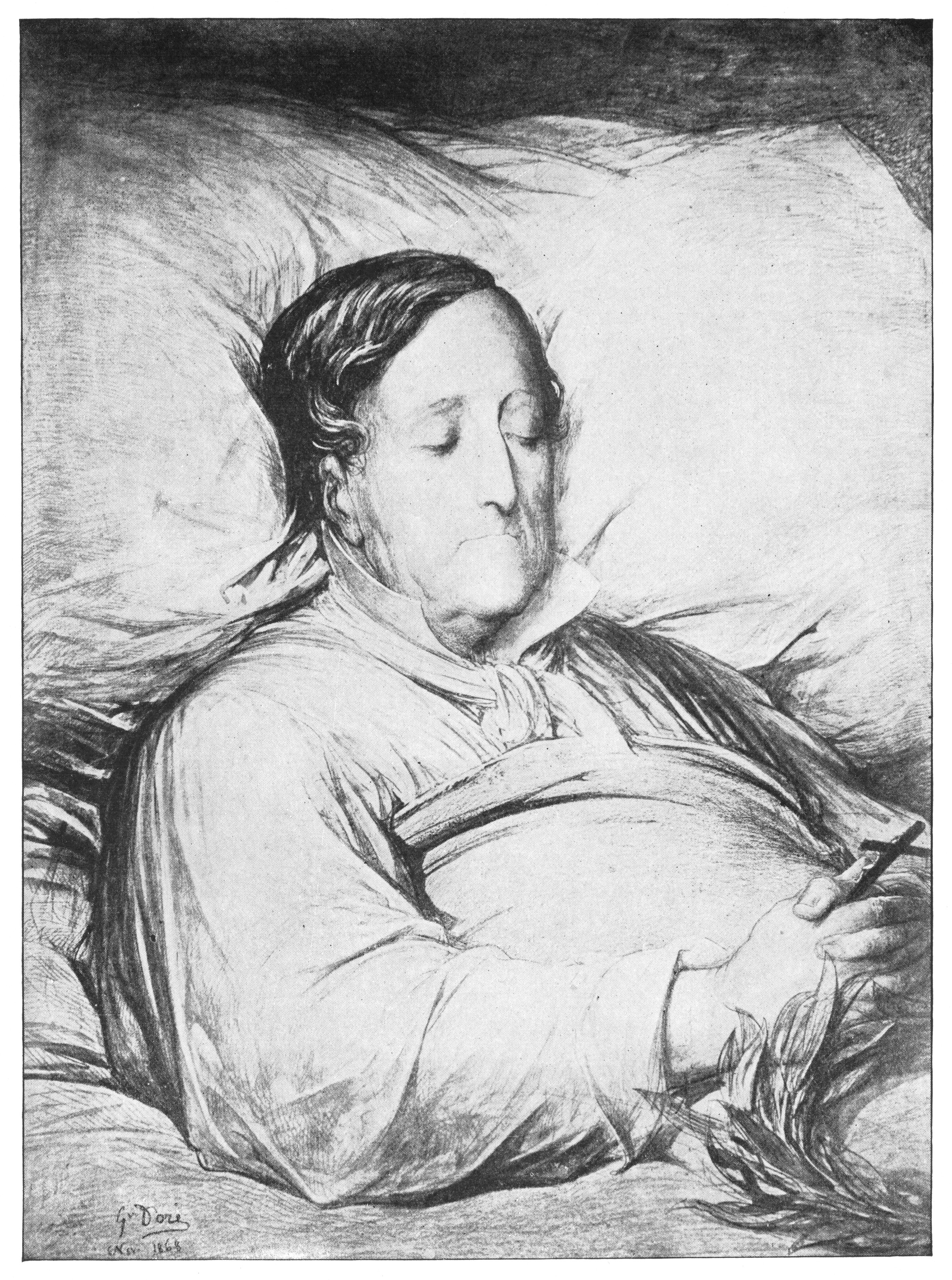 Gioacchino Rossini on his death bed (Gustave Dore)